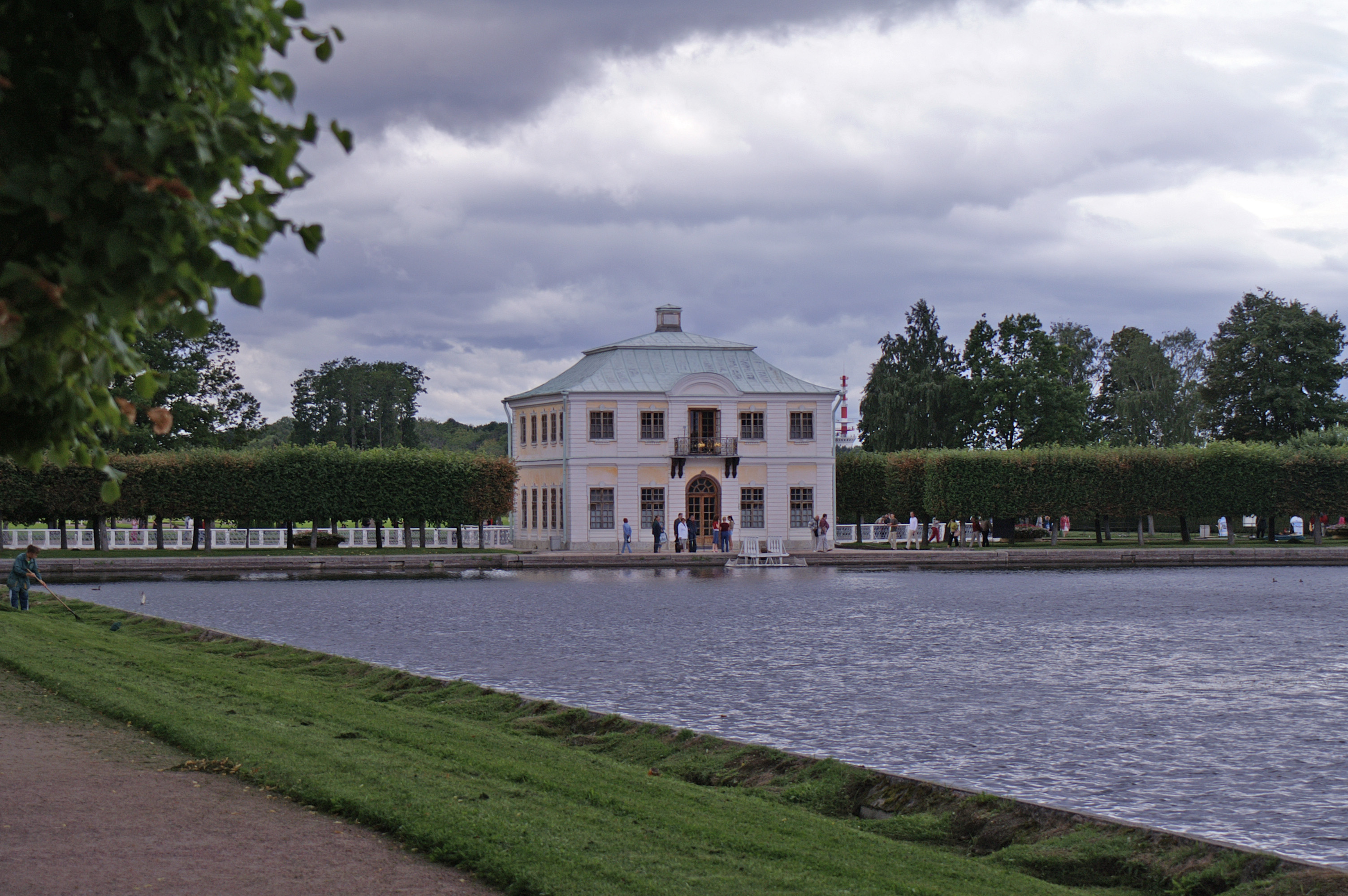 Peterhof. Marly palace (in around of the Sankt Petersburg, Russia)